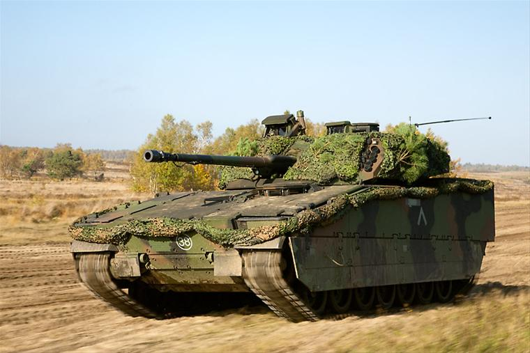 Camouflaged CV9035 NL with add-on armour